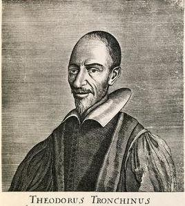 Portrait of Théodore Tronchin (1582–1657), Genevan Calvinist theologian.